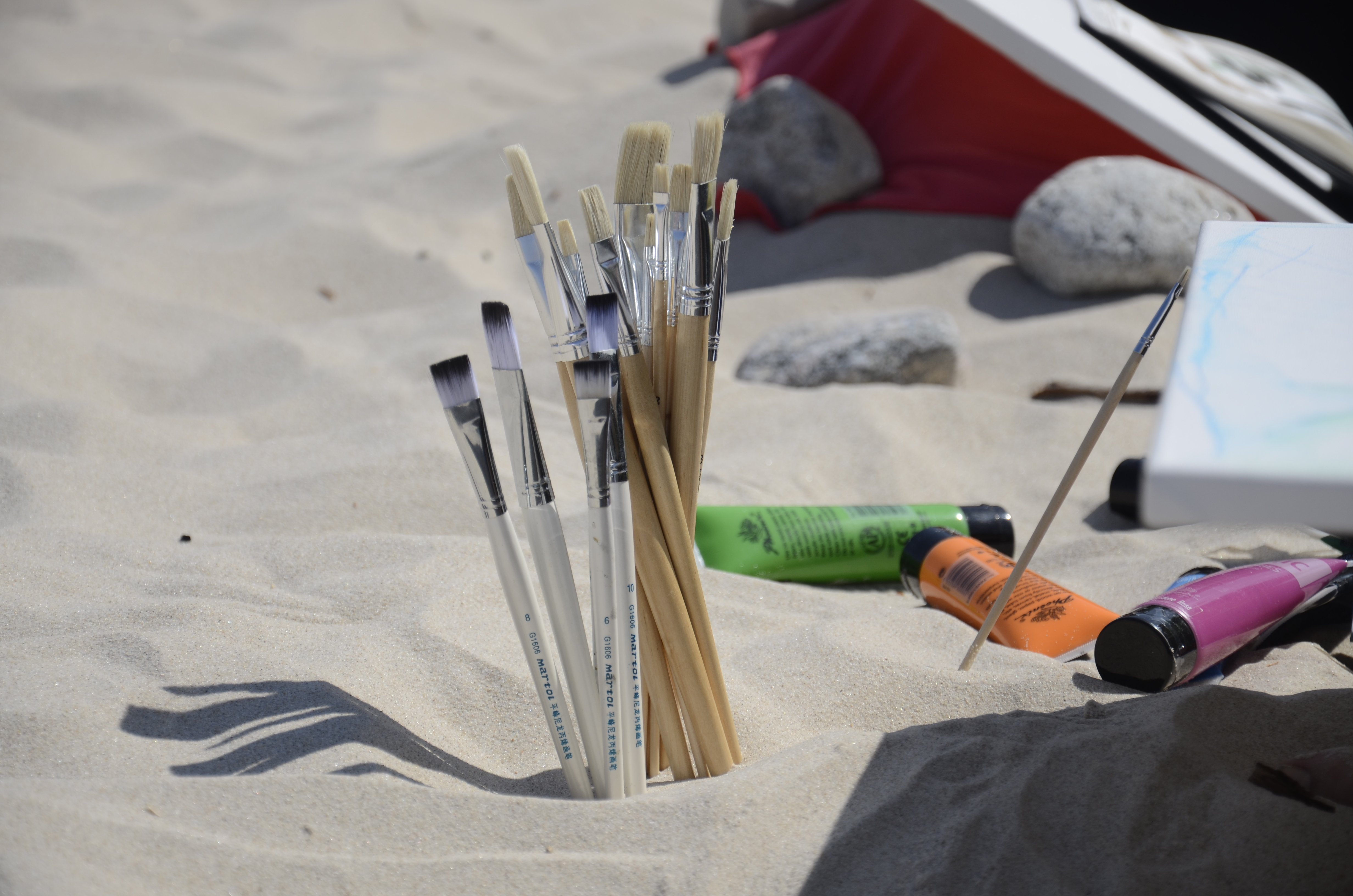 open air painting